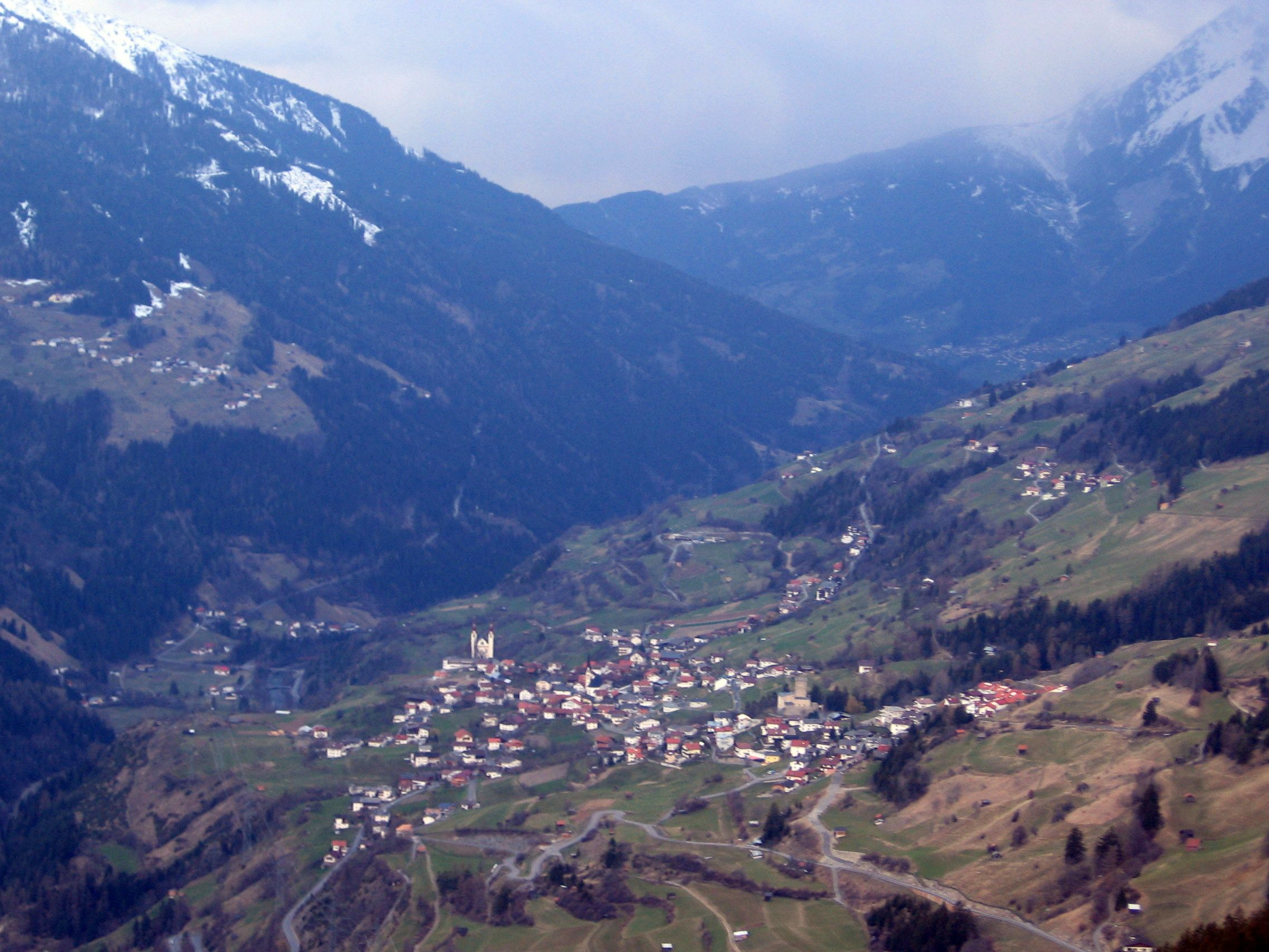 The Village Fließ, Tyrol, Austria